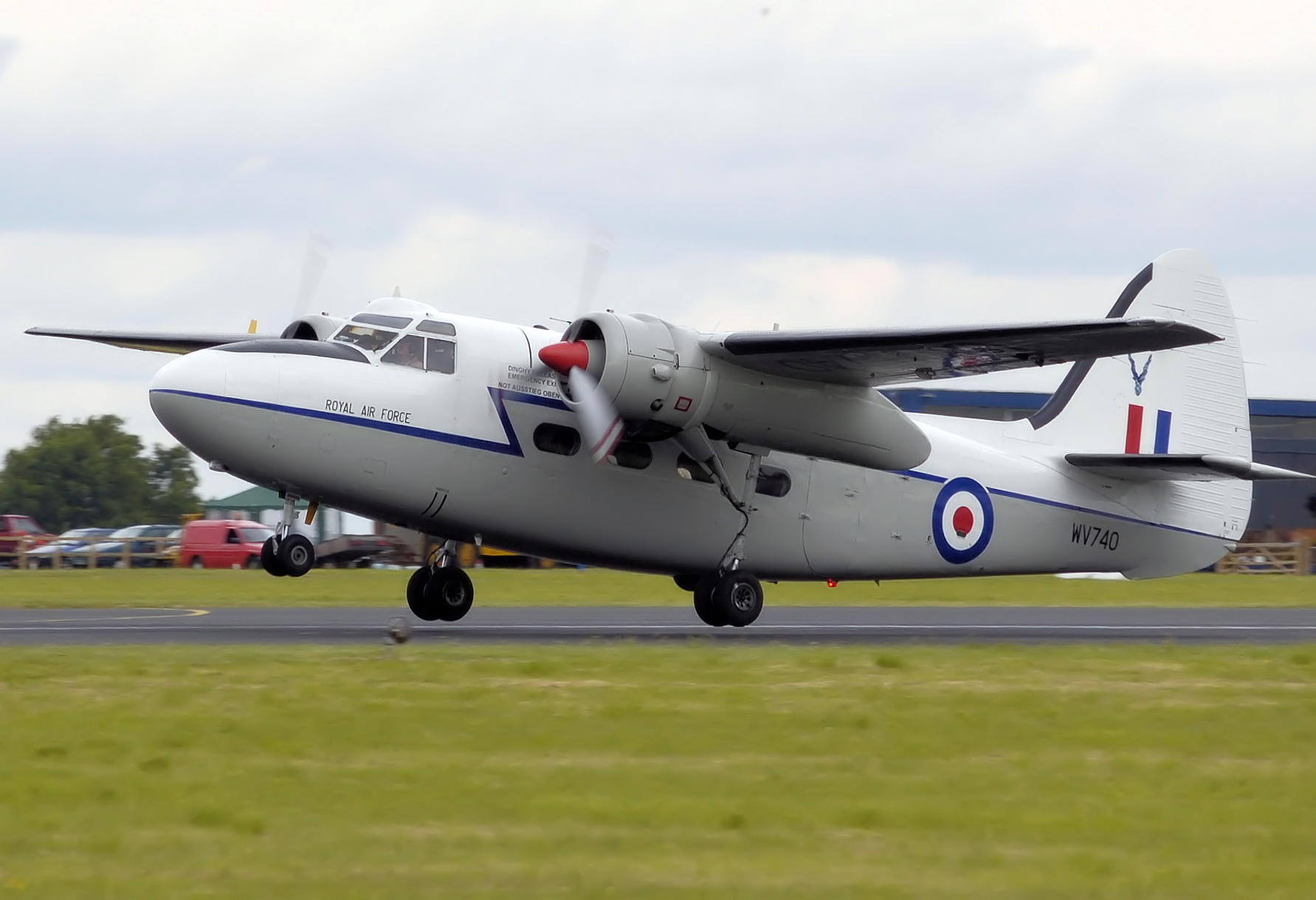 ex-RAF Hunting Percival P-66 Pembroke C1 (WV740, civil registration G-BNPH)) takes off at Kemble Air Day 2008, Kemble Airport, Gloucestershire, England. This aircraft was built in 1955 in Luton, England, and painted in Squadron 60 colours. It served with the Aden Protectorate Support Flight at Khormaksar, with the Station Flight at Eastleigh, Kenya, and at RAF Wildenrath in Germany. It is now privately owned but still carries the colours of 60 Squadron of the RAF. All Pembrokes were retired from RAF service in 1988. Photographed by Adrian Pingstone in June 2008 and placed in the public domain.